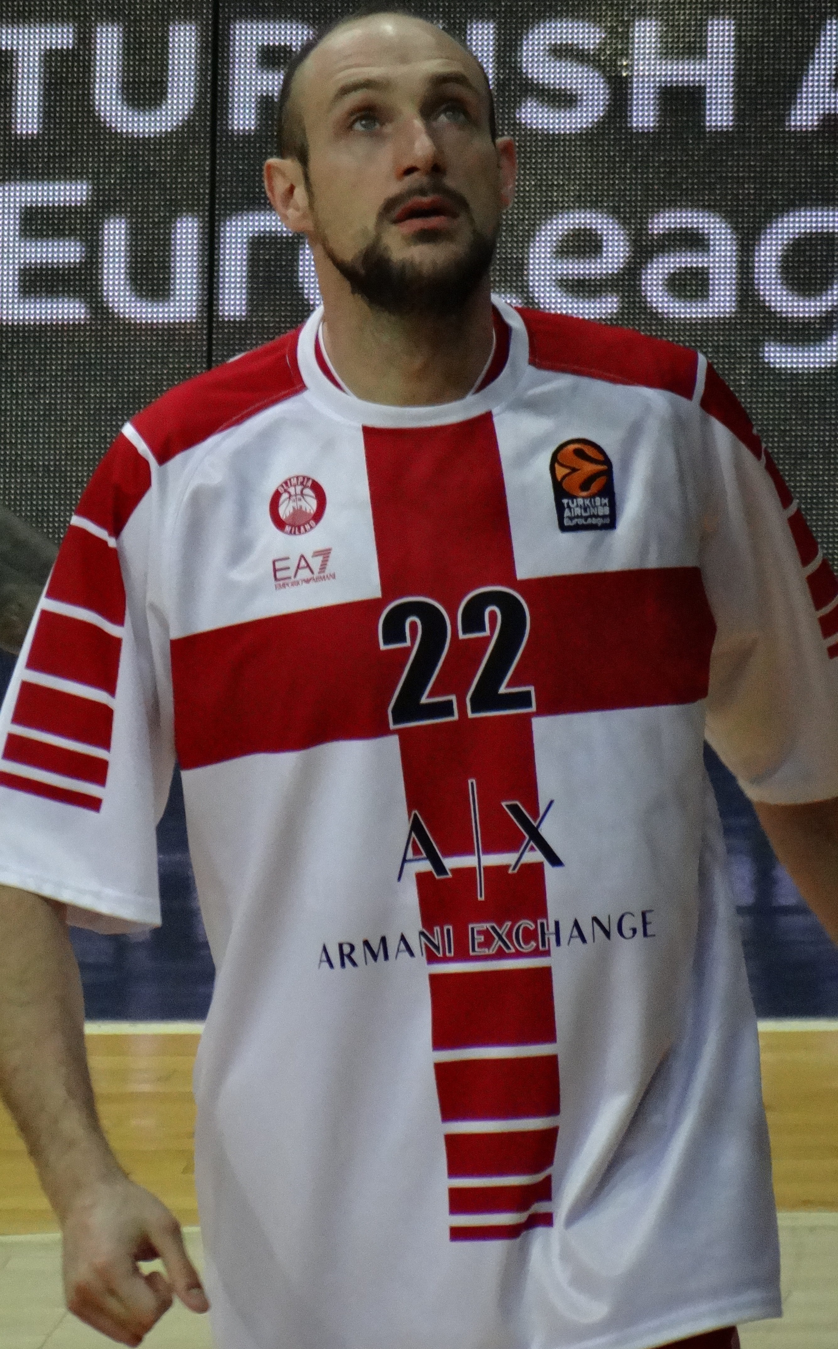 Marco Cusin 22 AX Armani Exchange Olimpia Milan 20180222